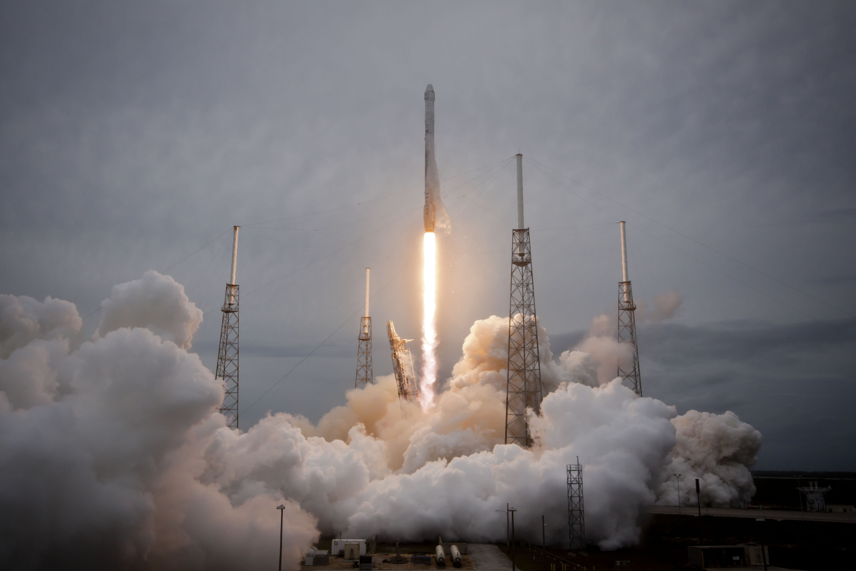 SpaceX’s Falcon 9 rocket and Dragon spacecraft launched from Launch Complex 40 at the Cape Canaveral Air Force Station, Florida, for their third official Commercial Resupply (CRS) mission to the orbiting lab on April 18, 2014. Dragon returned to Earth with a parachute-assisted splashdown off the coast of southern California on May 14, 2014. Dragon is the only operational spacecraft capable of returning a significant amount of supplies back to Earth, including experiments.